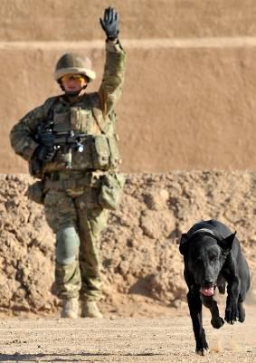 Provides a stand-off IED detect capability for DCC patrols to provide an additional level of assurance on various TTPs.